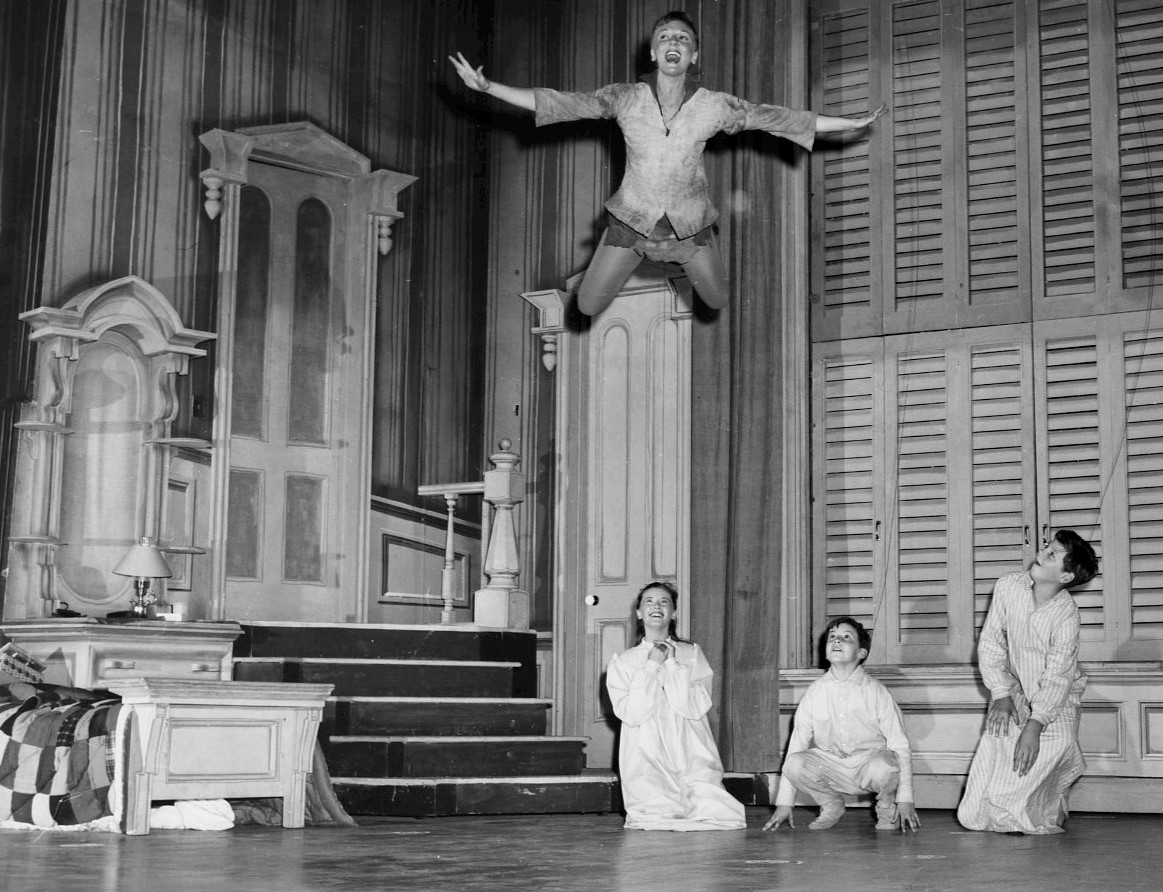 Scene from Peter Pan where Peter (Mary Martin) shows the Darling children he can fly. Wendy is played by Kathy Nolan.